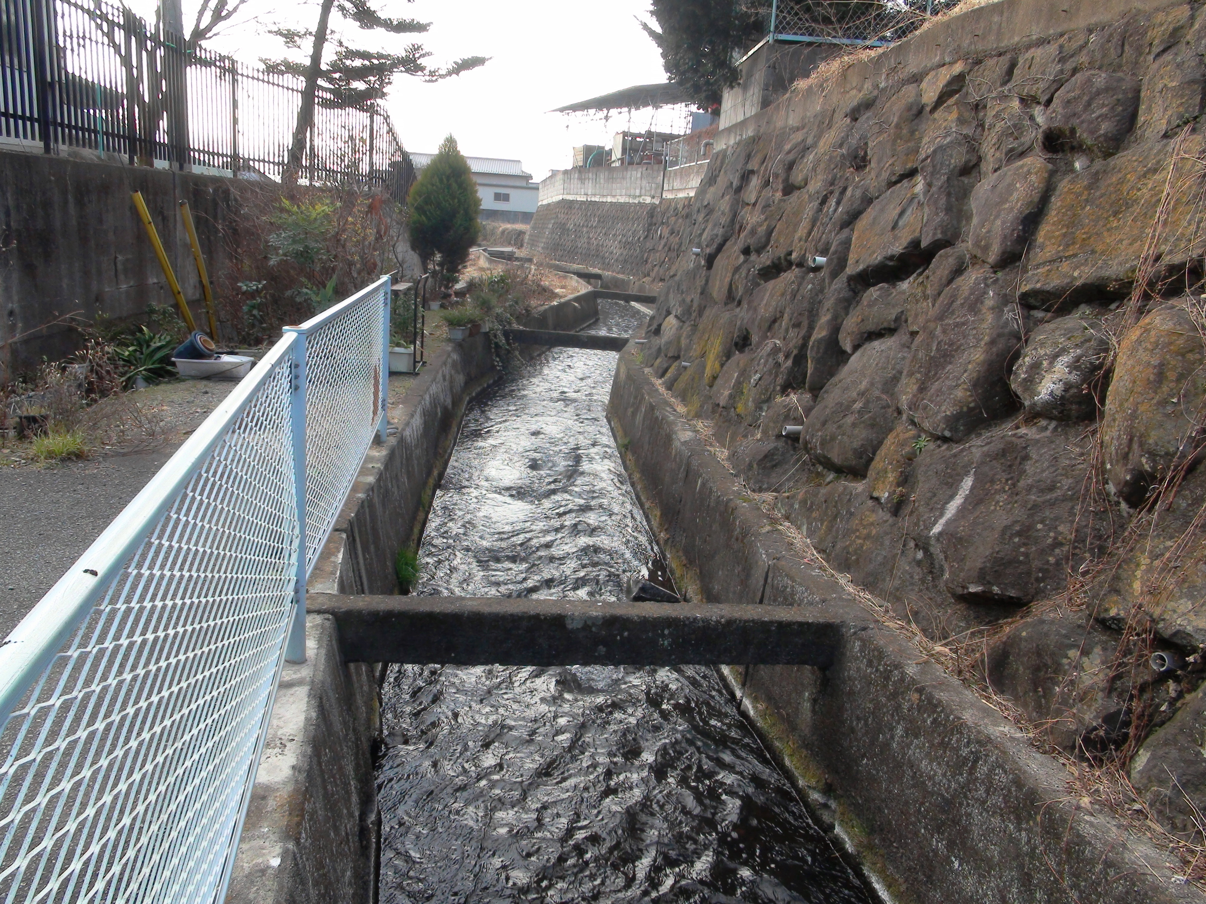 Kamijo-Seki irrigation waterway in Yamanashi prefectur